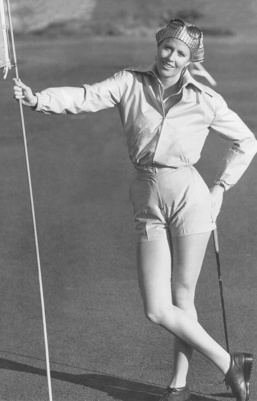 1976 Pretty Leggy Golfer Actress Suzy Chaffee Olympic Ski Champion Press Photo